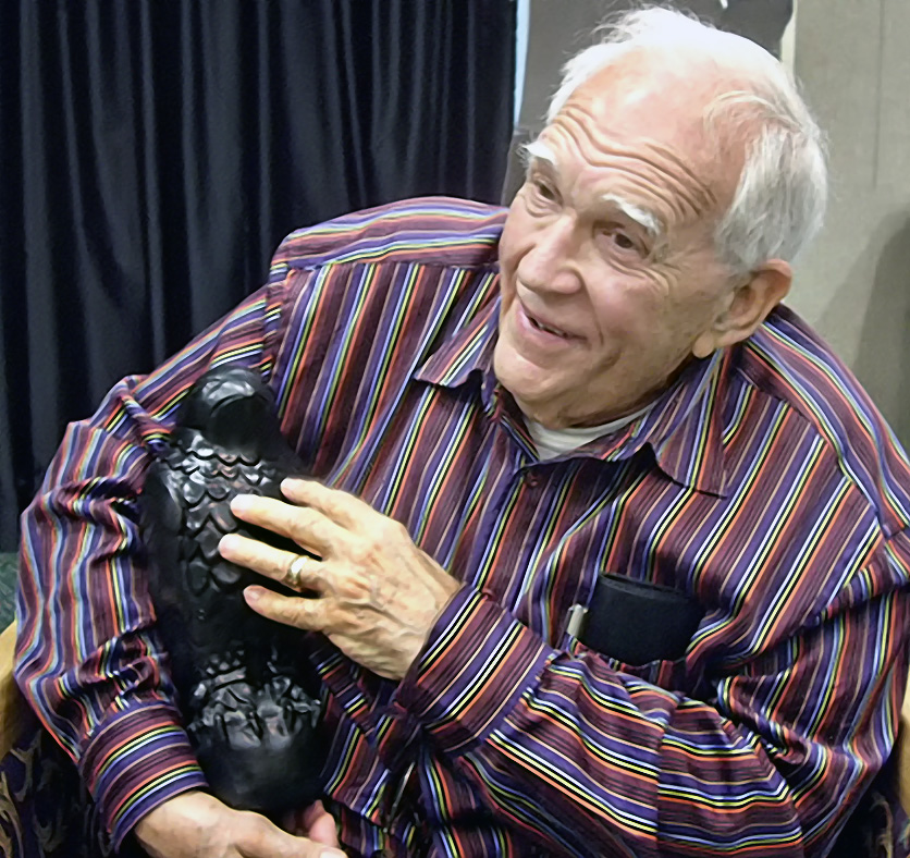 Crime fiction writer Joe Gores with Maltese Falcon.